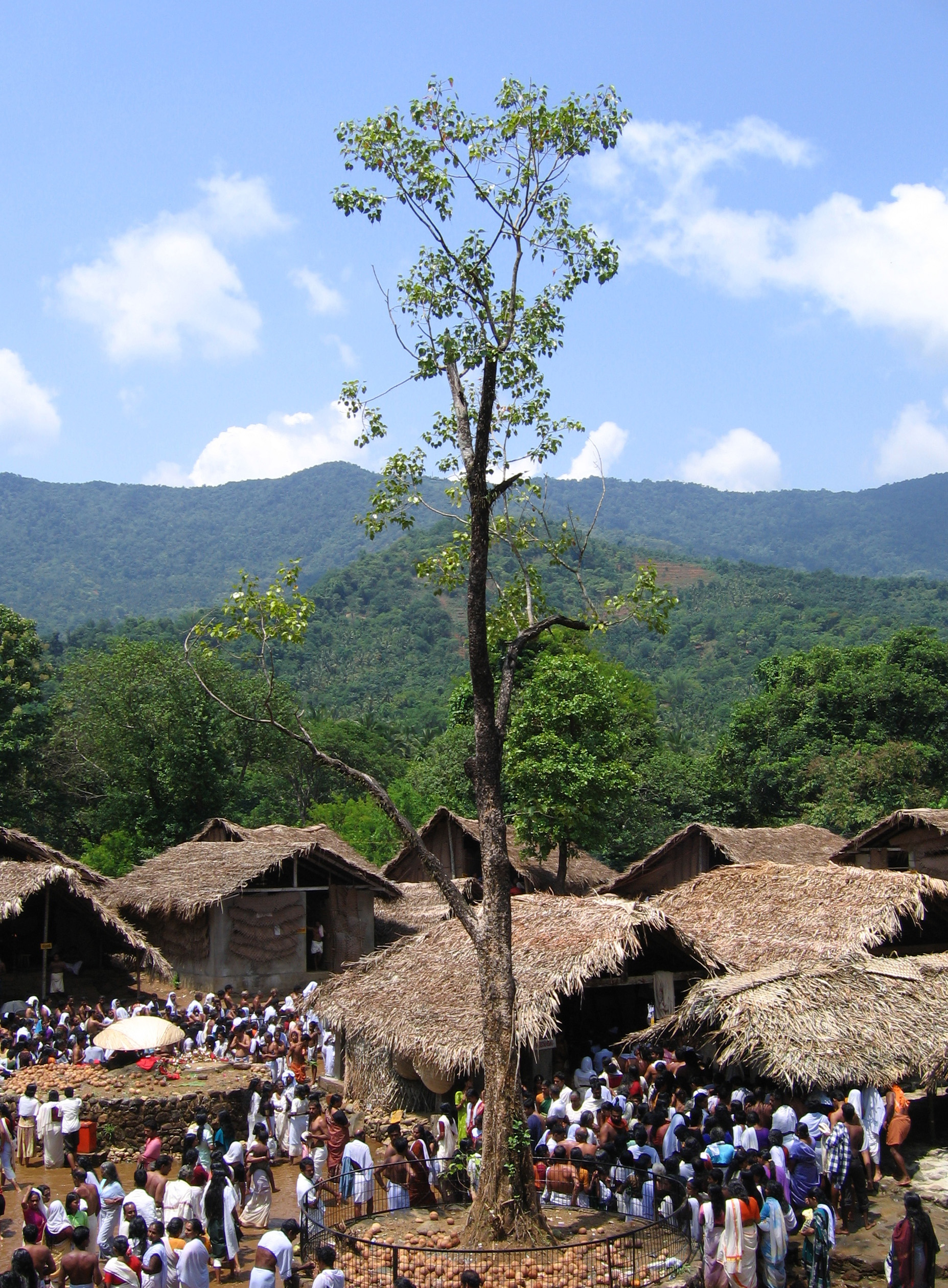 During the festival season May-June every year devotees throng to Akkare-Kottiyoor temple, which is closed for the other eleven months. Here is a banyan tree at the temple